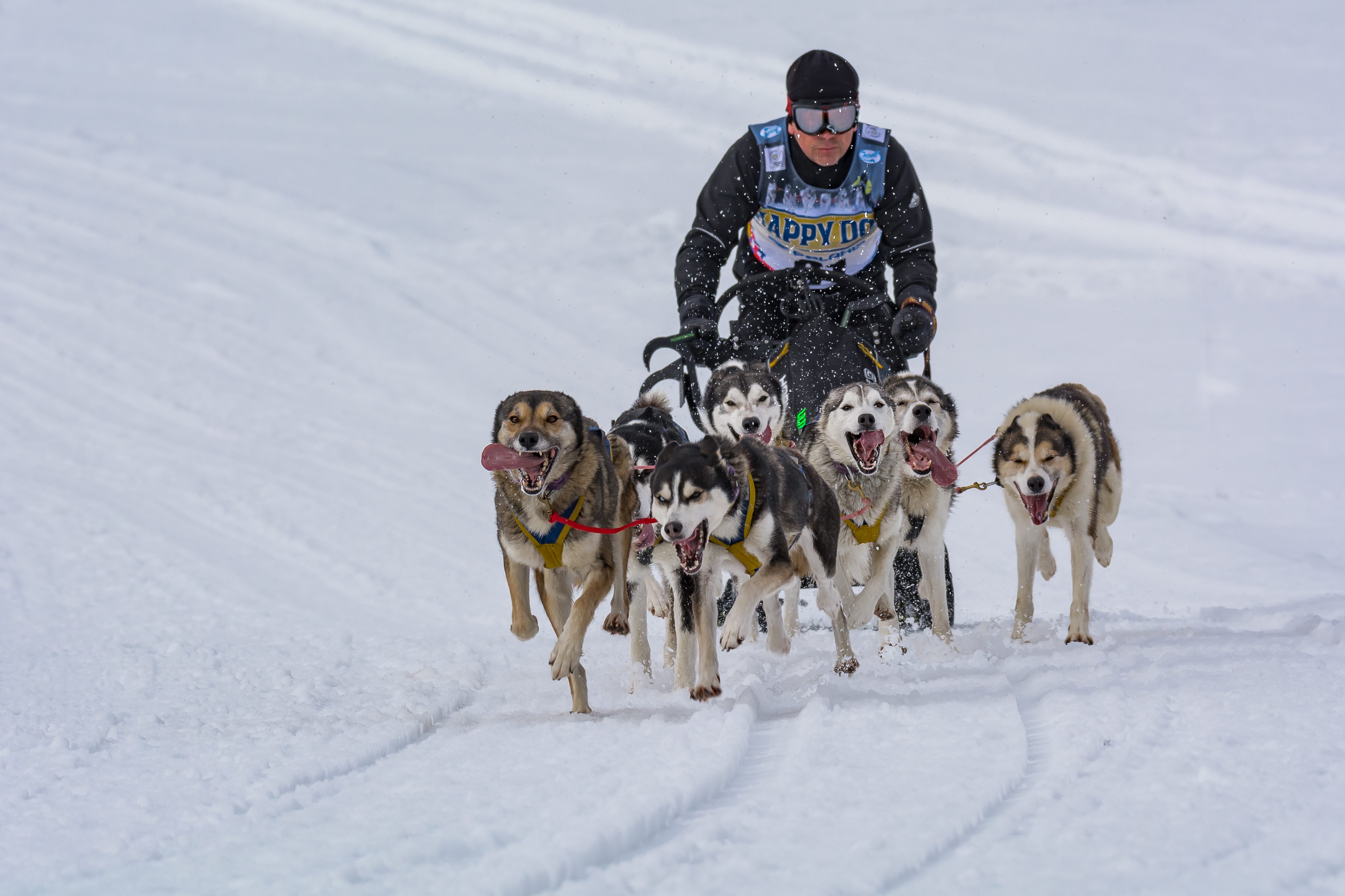 European Sleddog Championship Inzell 2017; Jürgen STROLZ, Category A1 (8 Siberian Huskies)